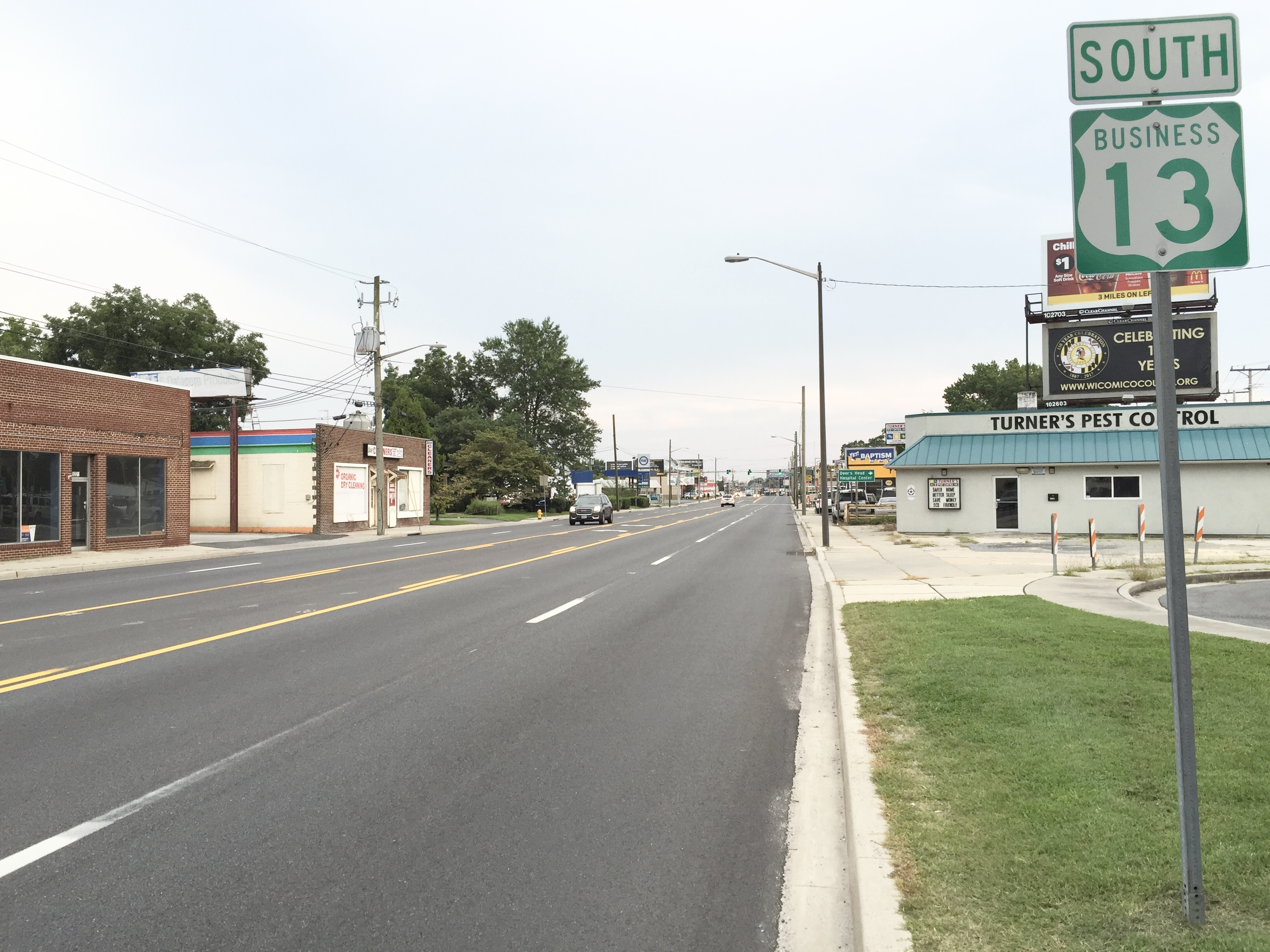 View south along U.S. Route 13 Business (Salisbury Boulevard) at Livingston Street in Salisbury, Wicomico County, Maryland